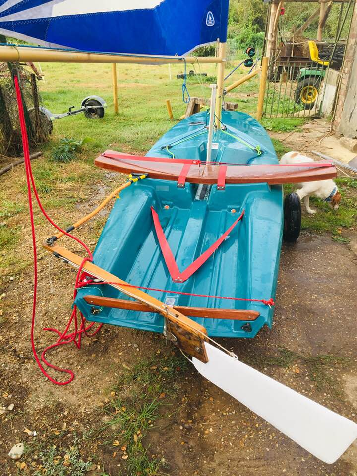 Minisail MiniSprint Mk 2 from 1970s showing full circle of Minisail design referred to by David Thorpe